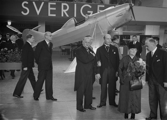 Opening ceremonies of SILI II in Helsinki's Töölö sports hall, with a Sparmann S 1-A exhibitted at the entrance foyer